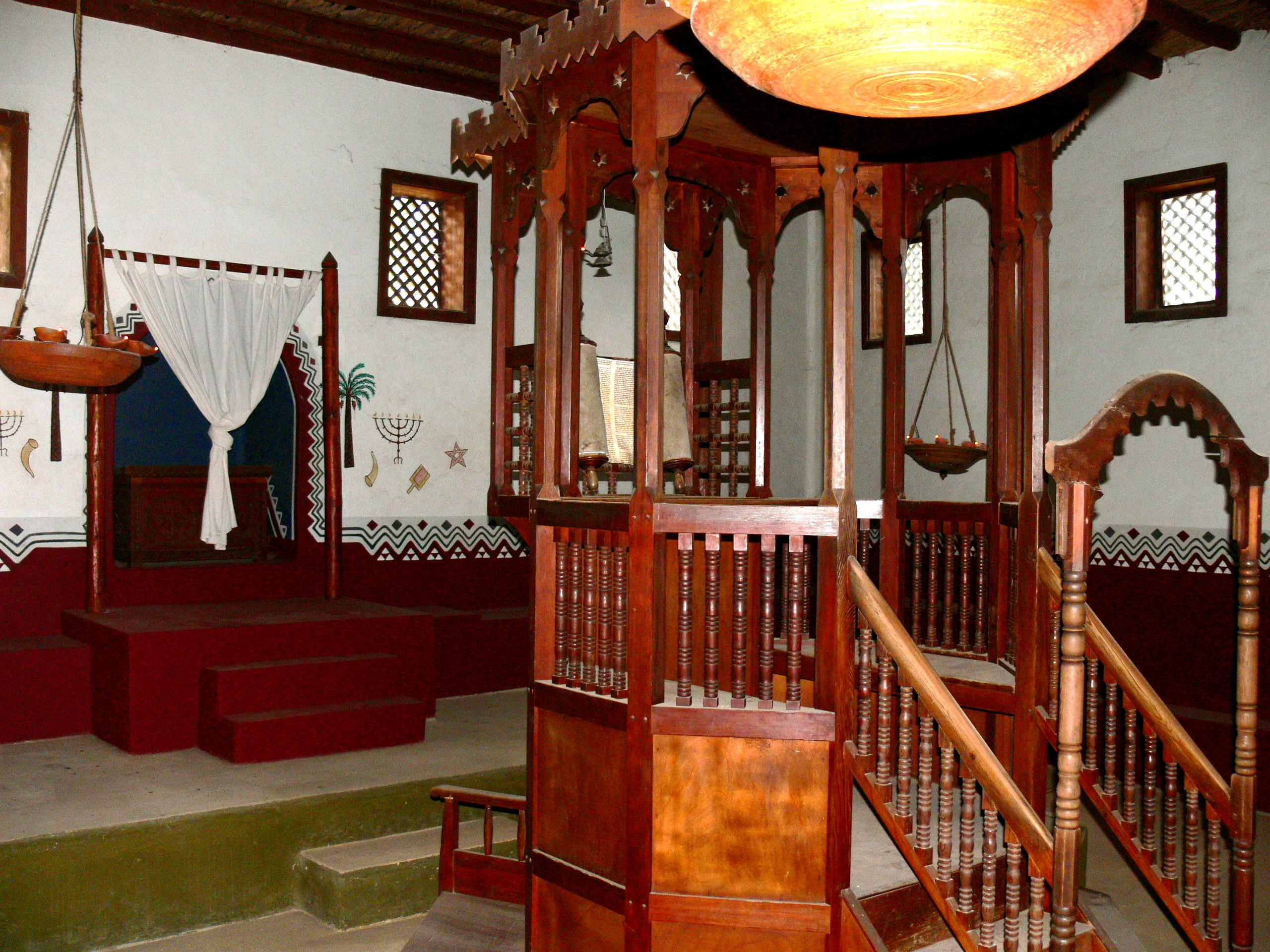 Bible open air museum in Nijmegen. Beith Juda: Interior of a Jewish synagogue.